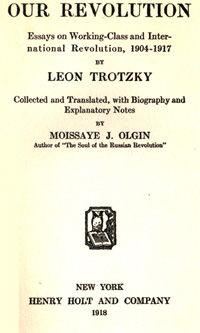 Trotsky L. Our Revolution: Essays on Working-Class and International Revolution, 1904—1917 / transl. by M. J. Olgin. — New York: Henry Holt and Co., 1918. — 220 p.